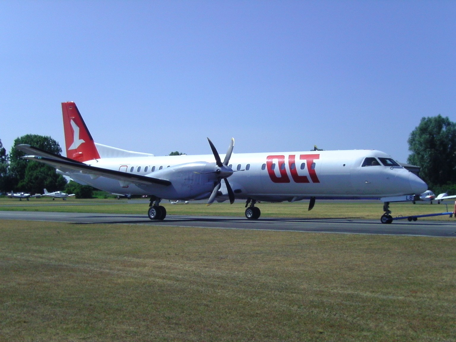 A Saab 2000 of the German regional airline OLT is being pulled at the airfield of Bremerhaven